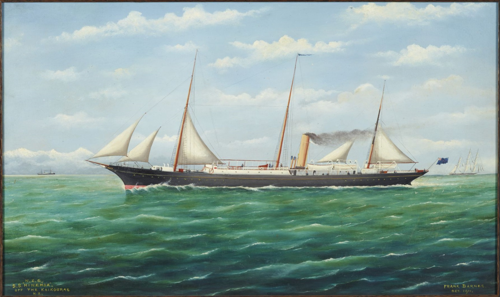 Painting by Frank Barnes of the New Zealand Government Service Steamer (NZGSS) 'Hinemoa' off the Kaikoura Mountains (Oil painting, particle board, Dimensions Frame 582 (Height) x 889 (Length) x 40 (Width/Depth) mm; Sight 440 (Height) x 746 (Length) mm; 1911).